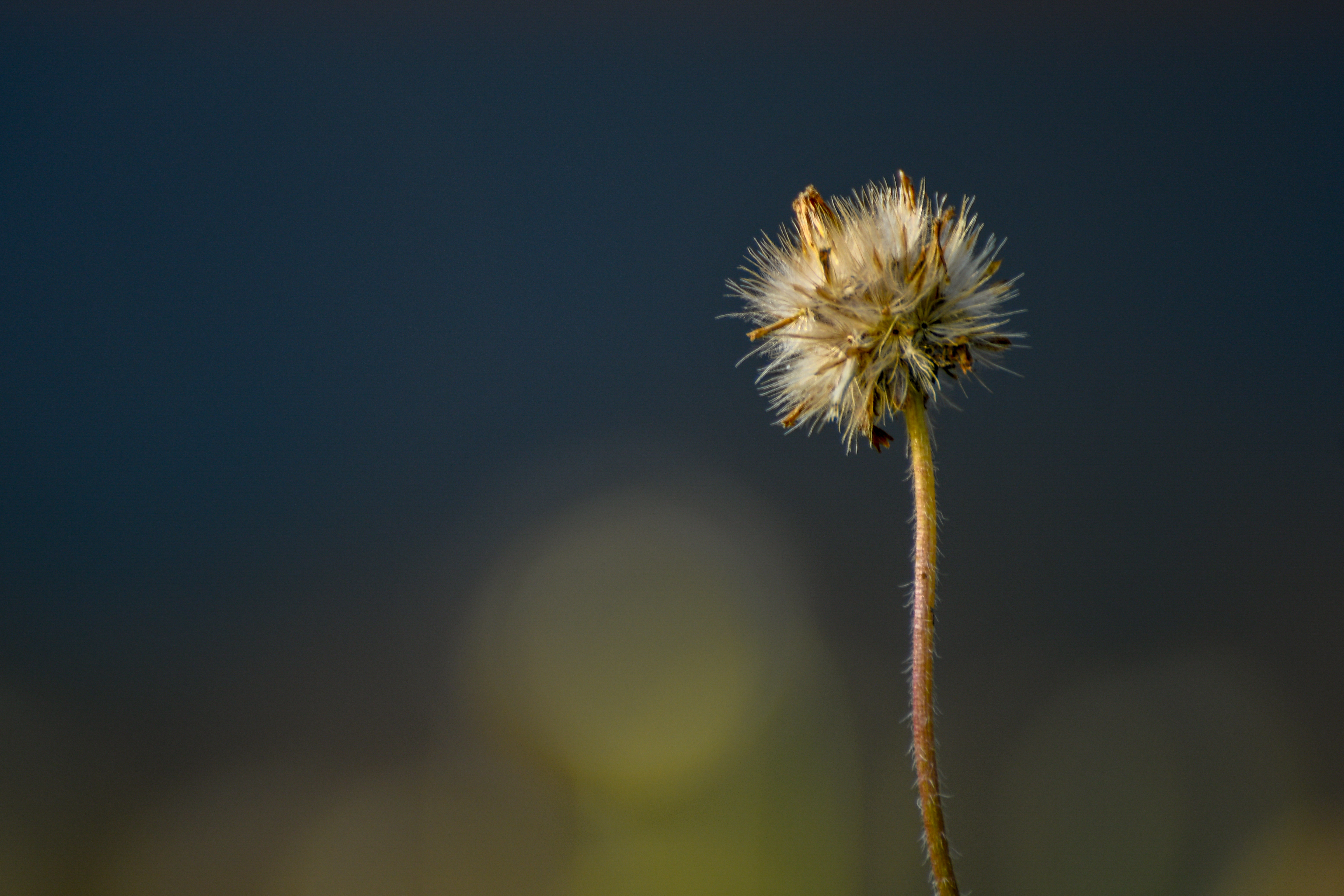 unidentified